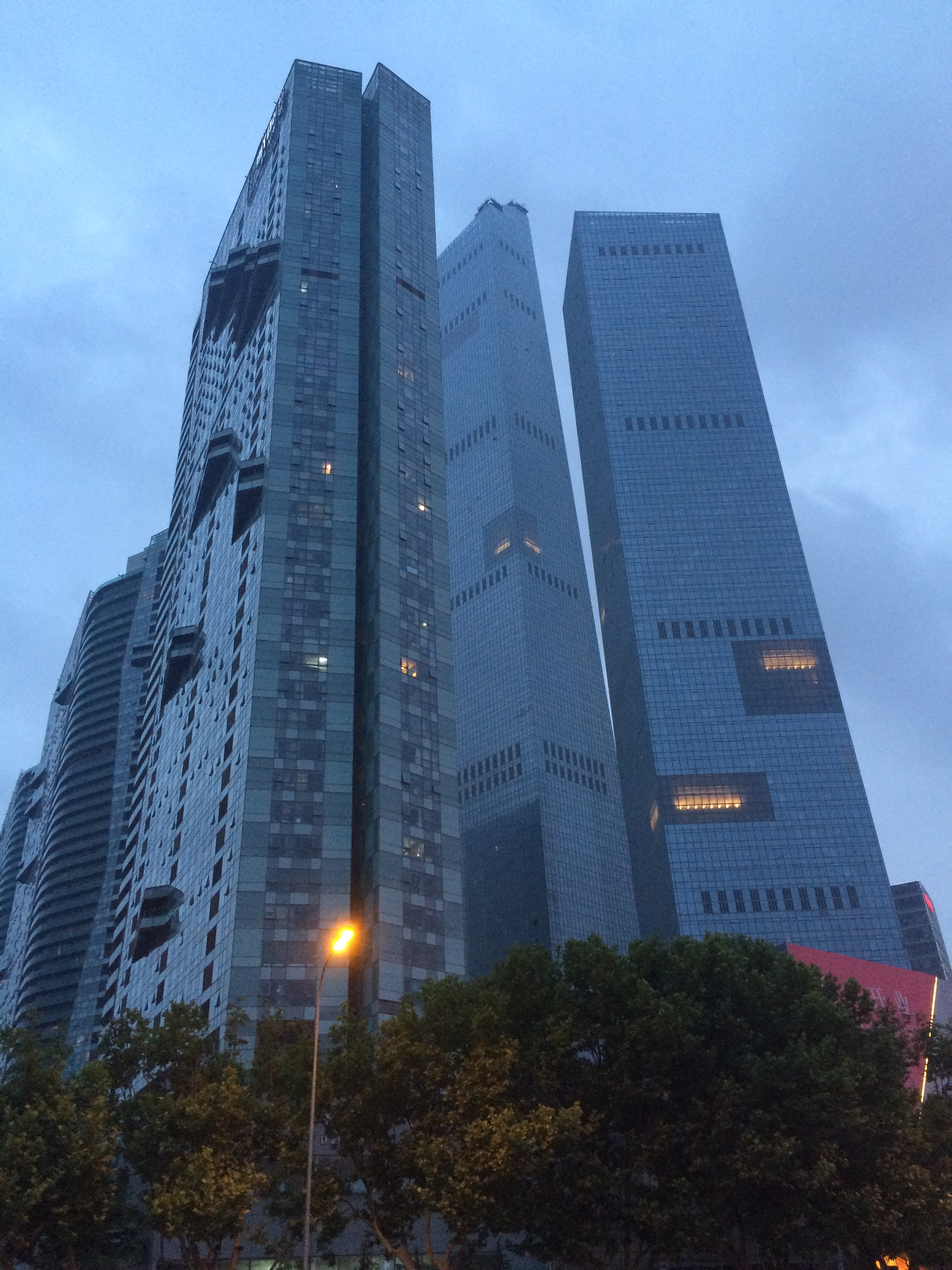 Dalian Eton Center, Qingniwaqiao, Dalian, China